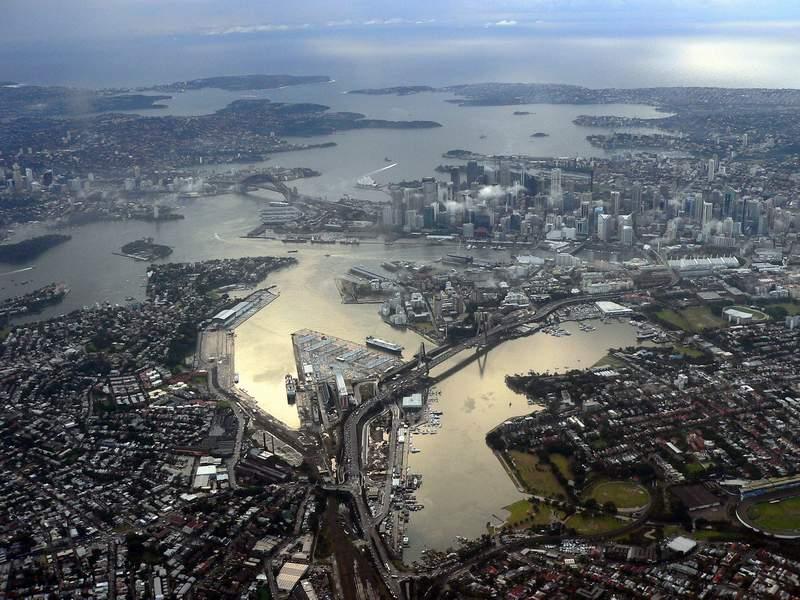 View of Port Jackson and Sydney CBD, taken shortly after take-off from Kingsford Smith Airport.